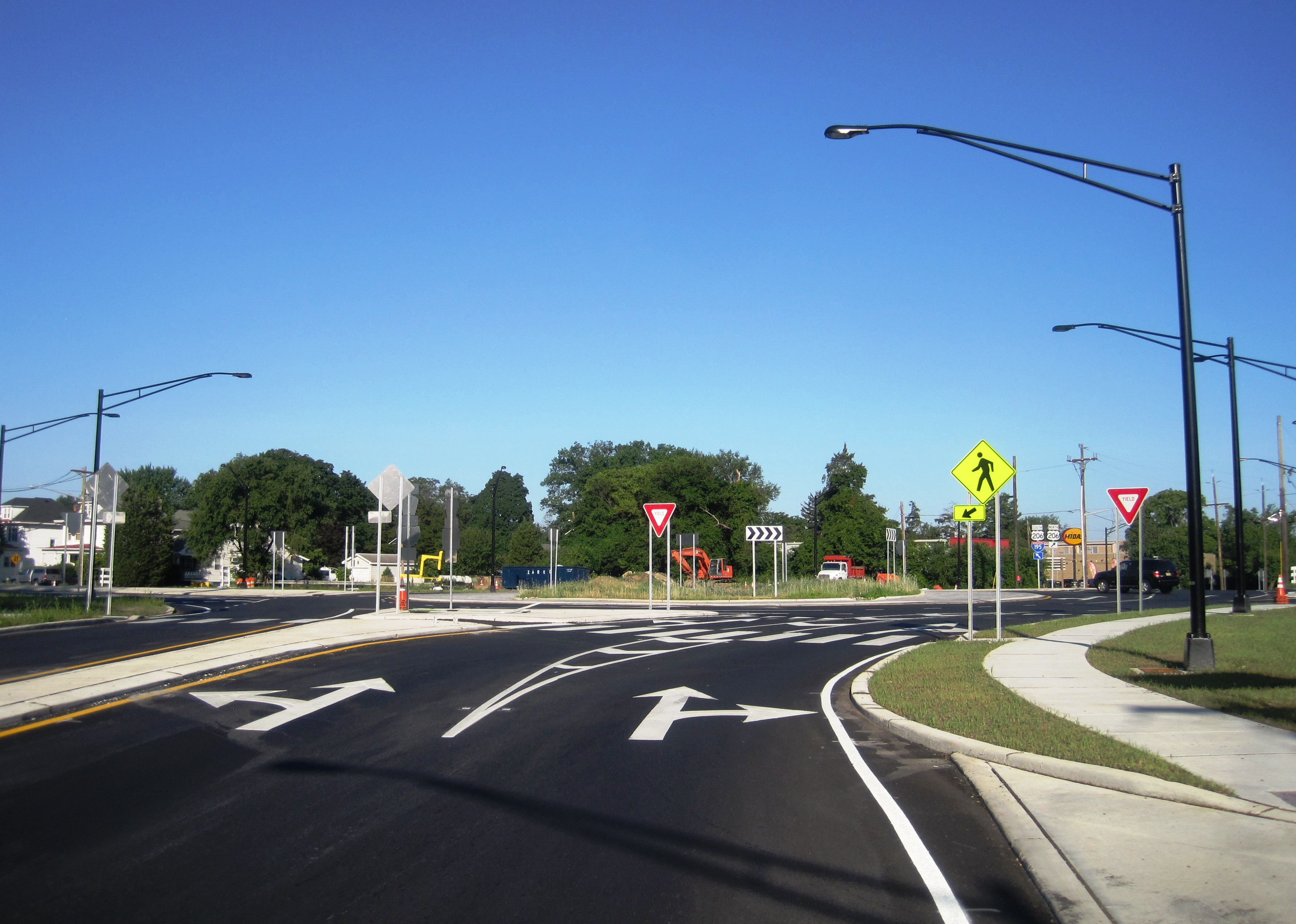 Photo of the White Horse Circle, located within the White Horse section of Hamilton Township, Mercer County, New Jersey. Photo taken looking west along South Broad Street (County Route 524); U.S. Route 206 continues to the south (left) and west (ahead) and CR 533 begins to the north (right).